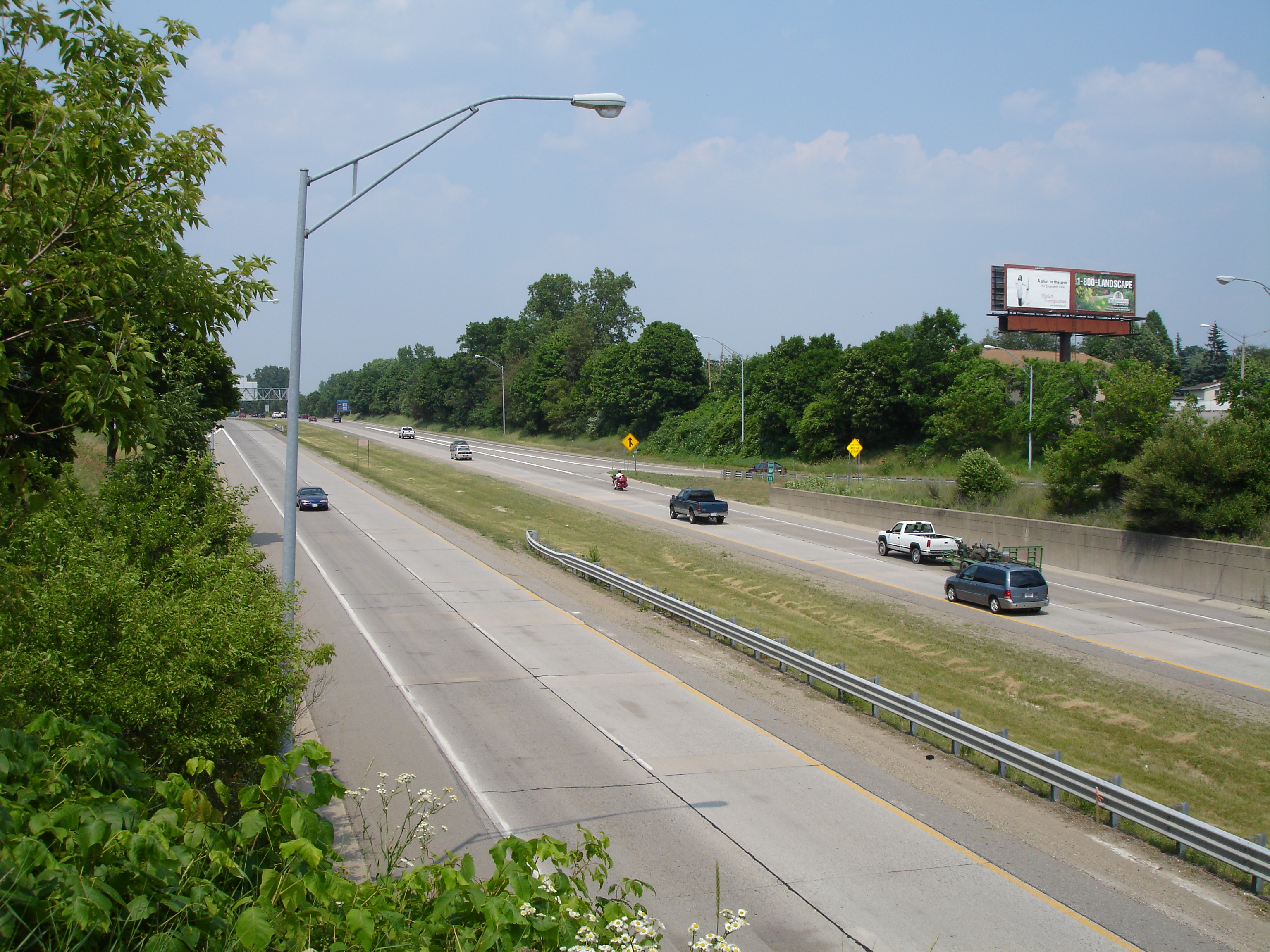 Looking north down US Highway 127, from the Grand River Avenue (BL I-69/M-43) overpass in Lansing